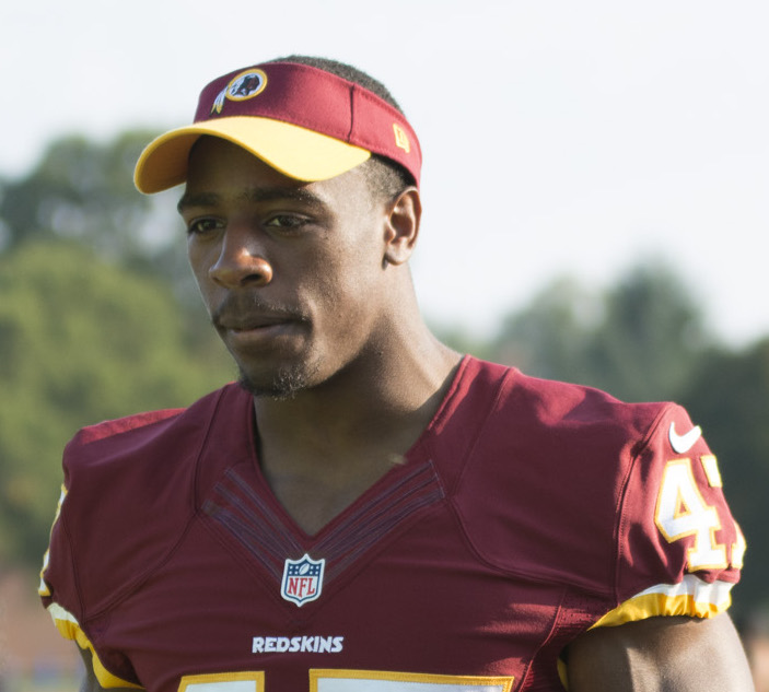 Washington Redskins safety, Akeem Davis, during a NFL Play 60 event on Fort Belvoir, Virginia.